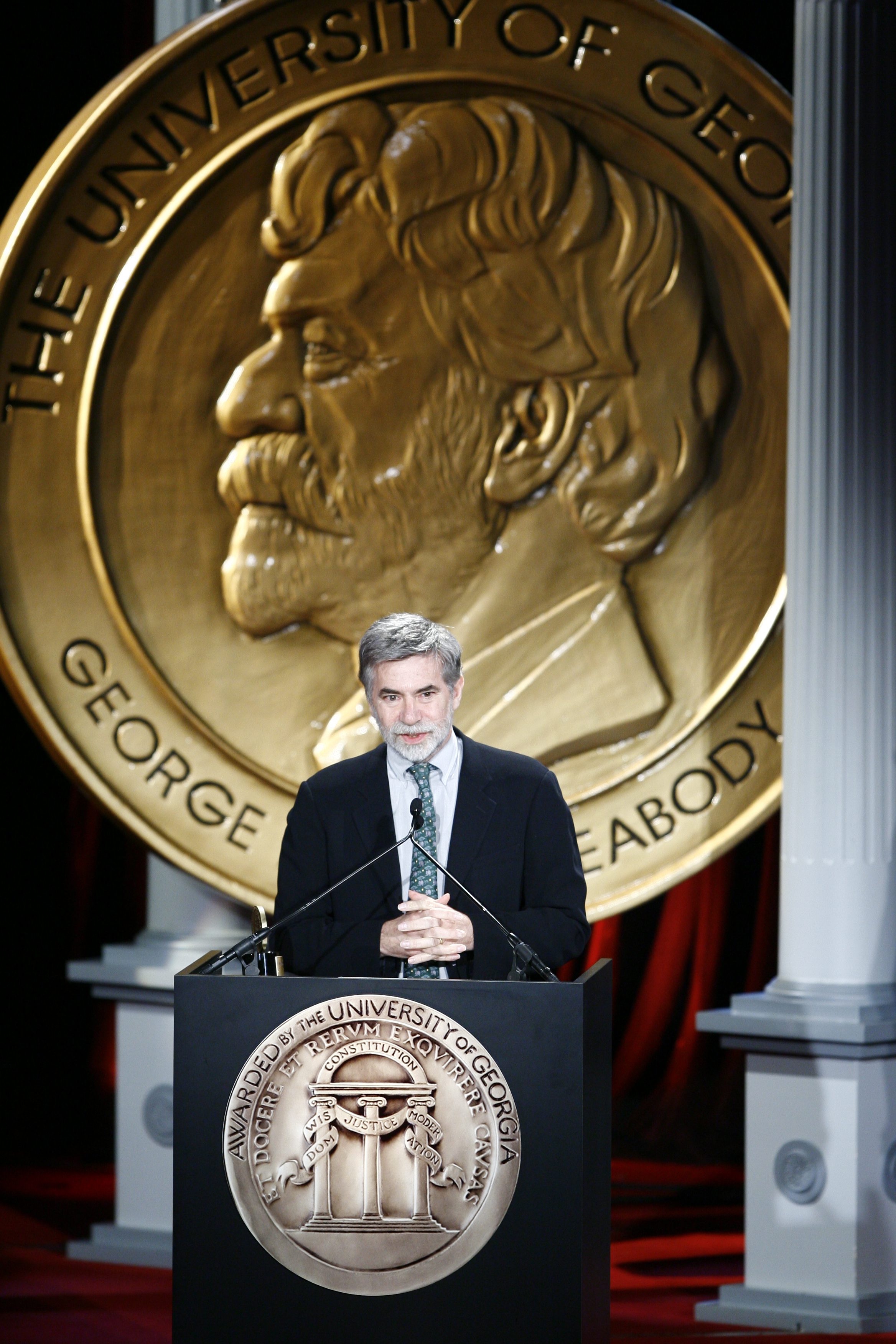 PHOTO CREDIT: ANDERS KRUSBERG / PEABODY AWARDS Dan Klores 69th Annual Peabody Awards Luncheon Waldorf=Astoria Hotel New York, NY USA May 17, 2010